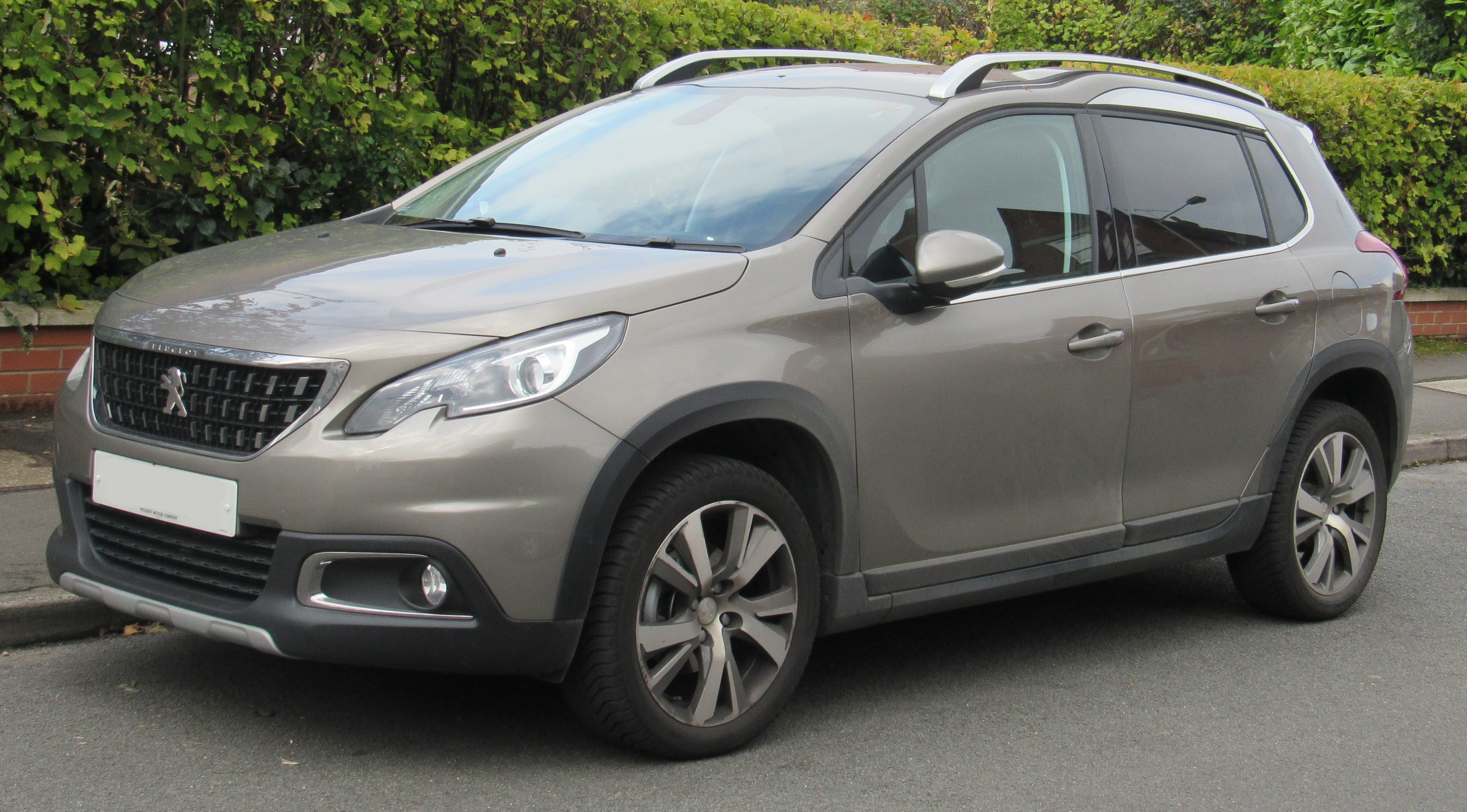 2017 Peugeot 2008 Allure 1.2 Front Taken in Leamington Spa